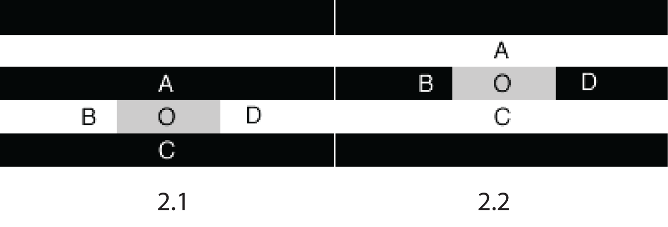 This is an image of White's Illusion, where certain stripes of a black and white grating is partially replaced by a gray rectangle. The gray Rectangles on the left, look much darker than the gray rectangles, on the right. However, all rectangles reflect the same amount of light.